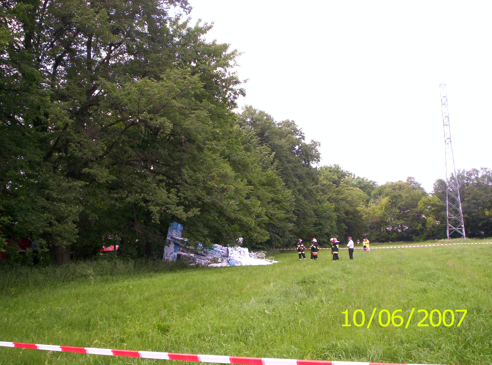 Accident of Tomasz Gollob's and Rune Holta's aircraft, Tarnów, Poland, 10 June 2007